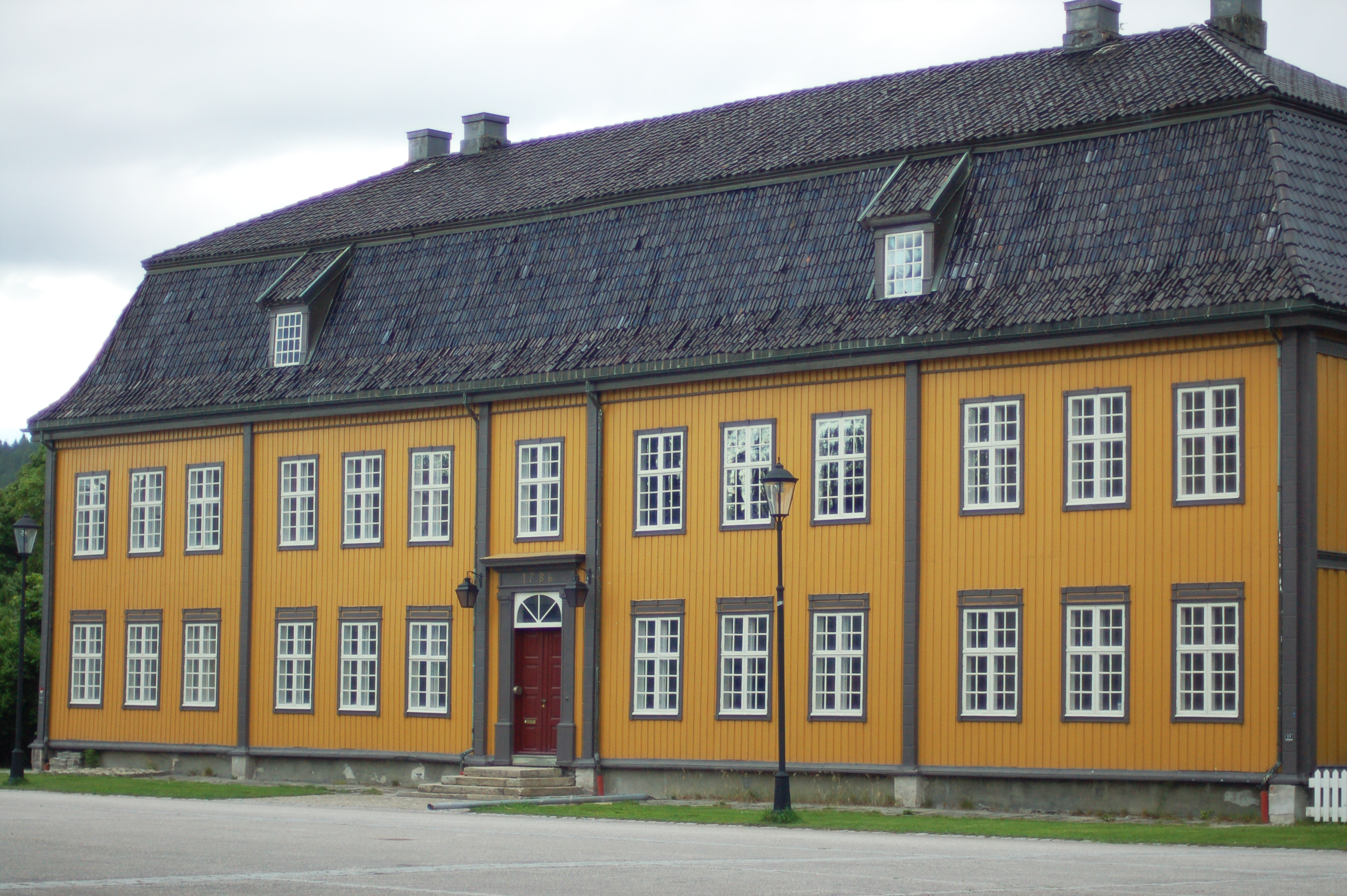 Bergseminaret, Kongsberg, Norway. Photo: Thomas Bjørndahl